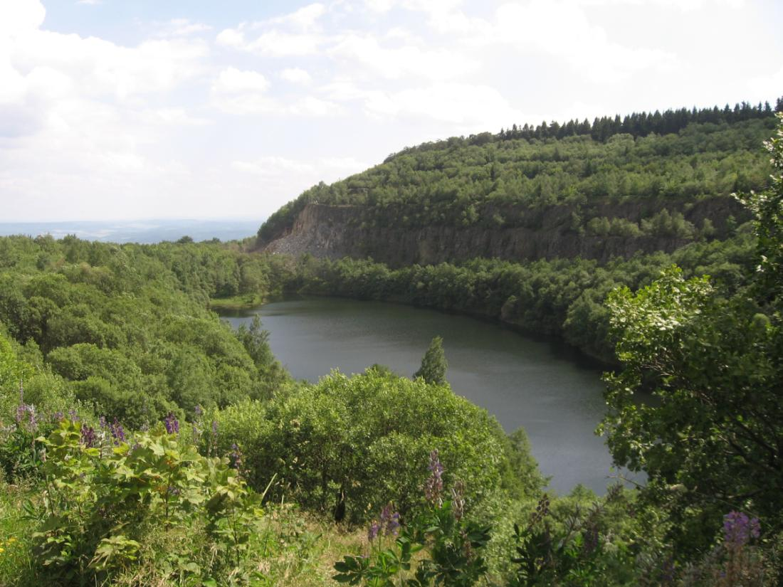 Germany / Hesse: Mountains "Hoher Meißner" - View in the old lignite surface mining